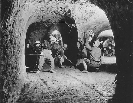 Large scale air-raid shelter in Japan